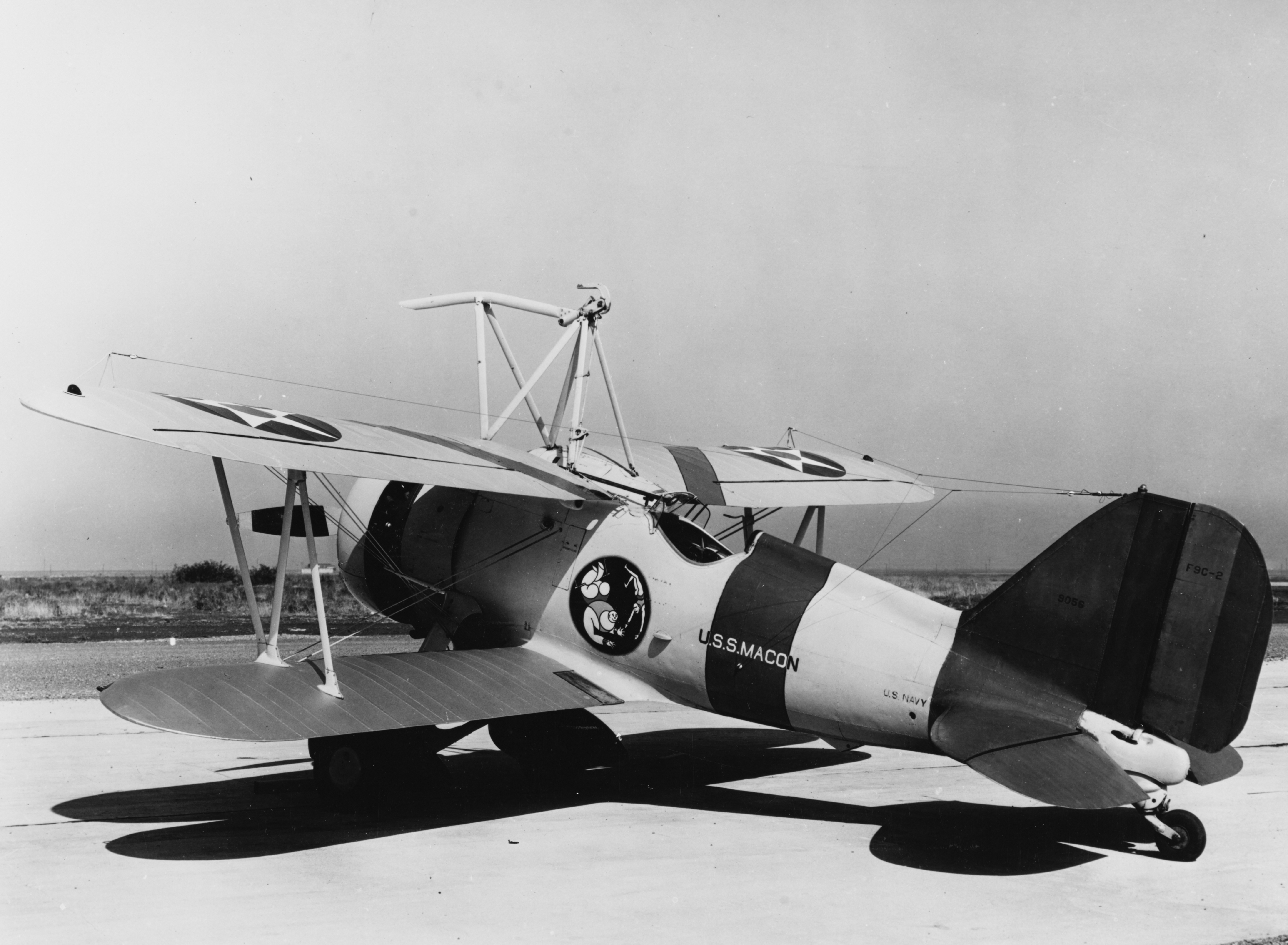 A U.S. Navy Curtiss F9C-2 Sparrowhawk (BuNo 9056) parked at an airfield, circa 1933-1935. This plane was part of the USS Macon (ZRS-5) heavier-than-air group, whose insignia is painted below the cockpit.